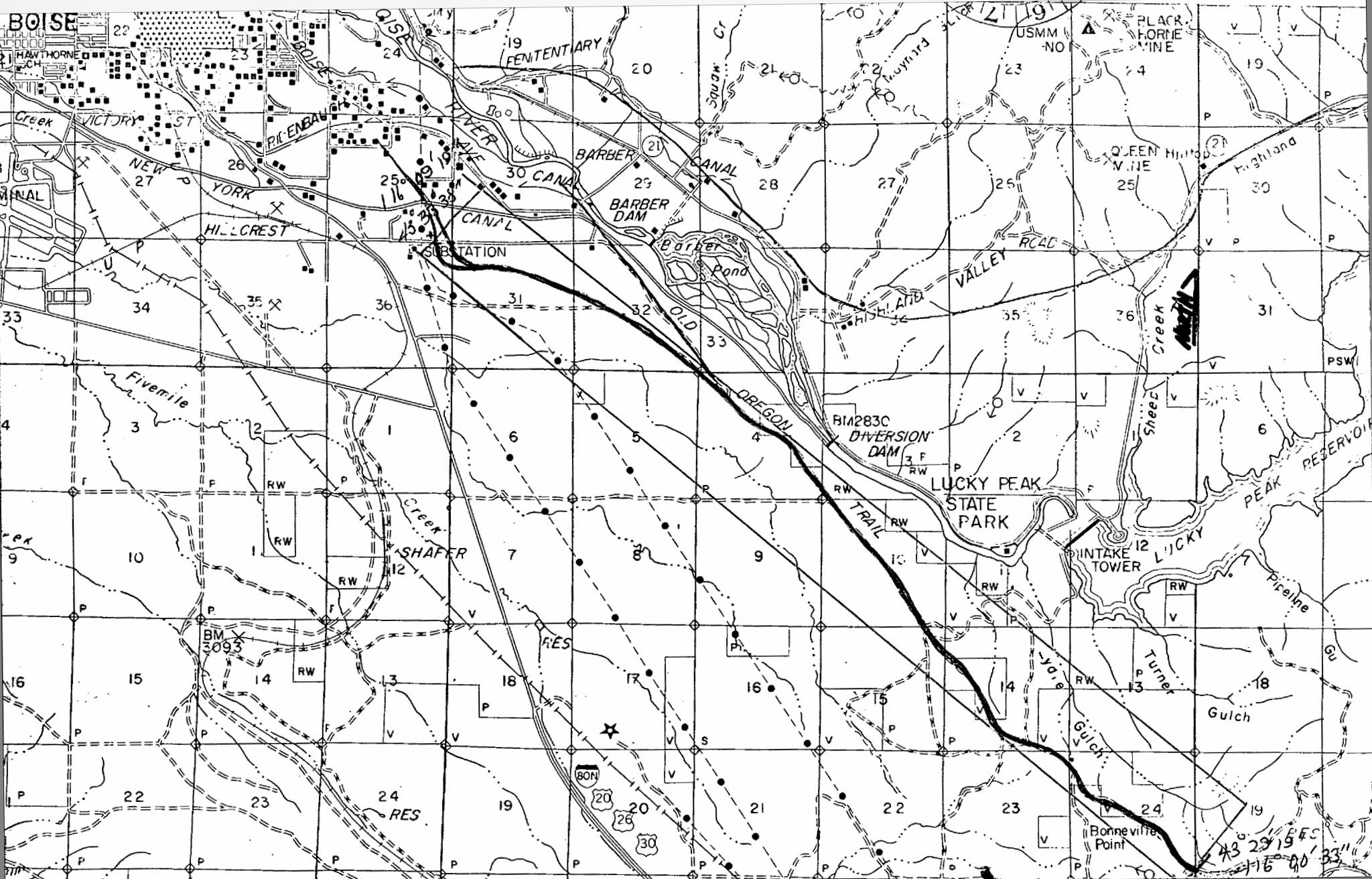 The Oregon Trail entered the Boise Valley southeast of Boise, Idaho, along the line depicted on this map. The Oregon Trail segment shown is roughly eight miles, and it was added to the National Register of Historic Places in 1972.